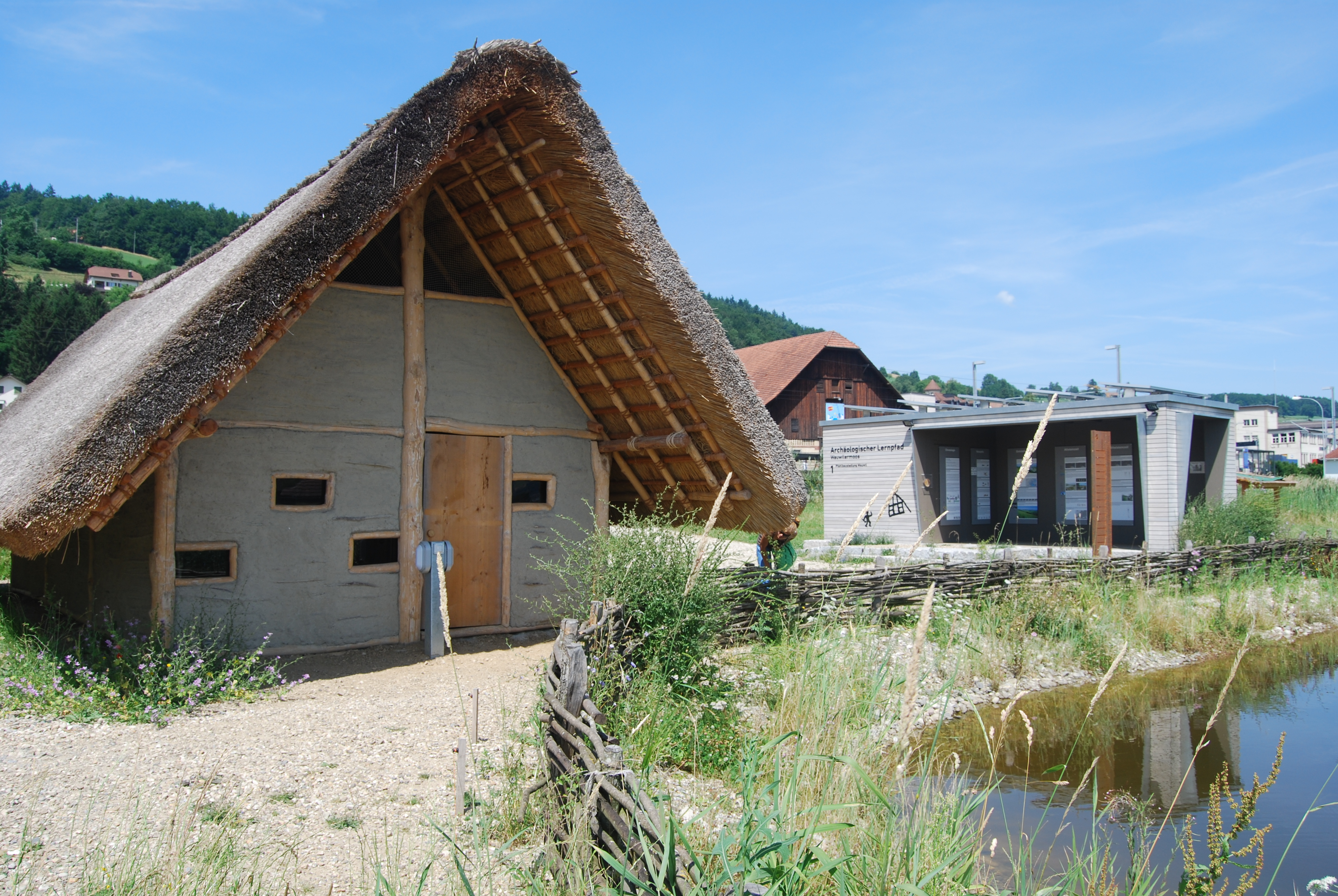 Archaeological learning pad of Wauwil, canton of Luzern, SwitzerlandEsperanto: Arkeologia lernpado de Wauwil, Kantono Lucerno, Svislando